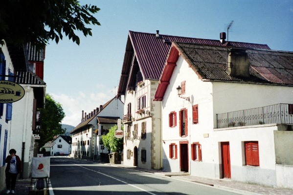 Ernest Hemingway's house